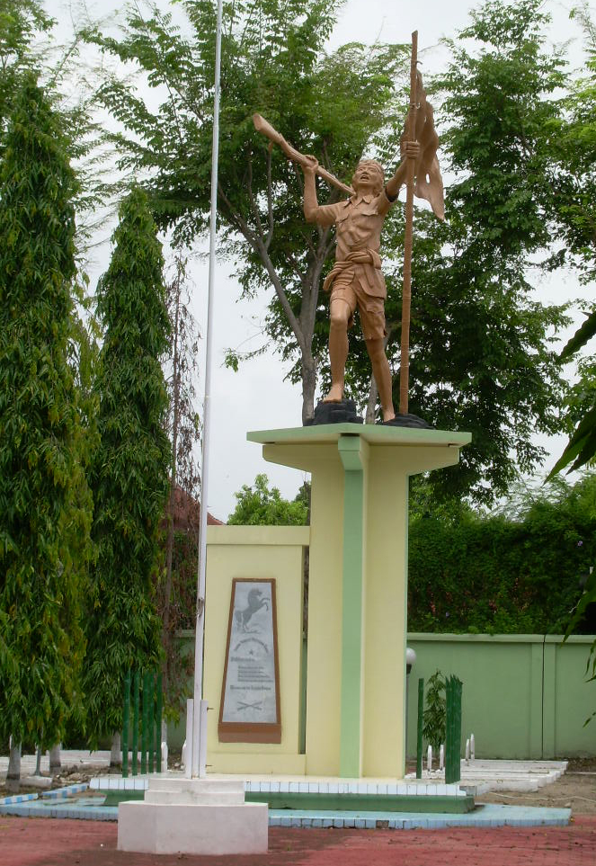 Hero Monument in Bojonegoro, East Java, Indonesia. Taken by me. (Arifhidayat 13:35, 6 February 2007 (UTC))